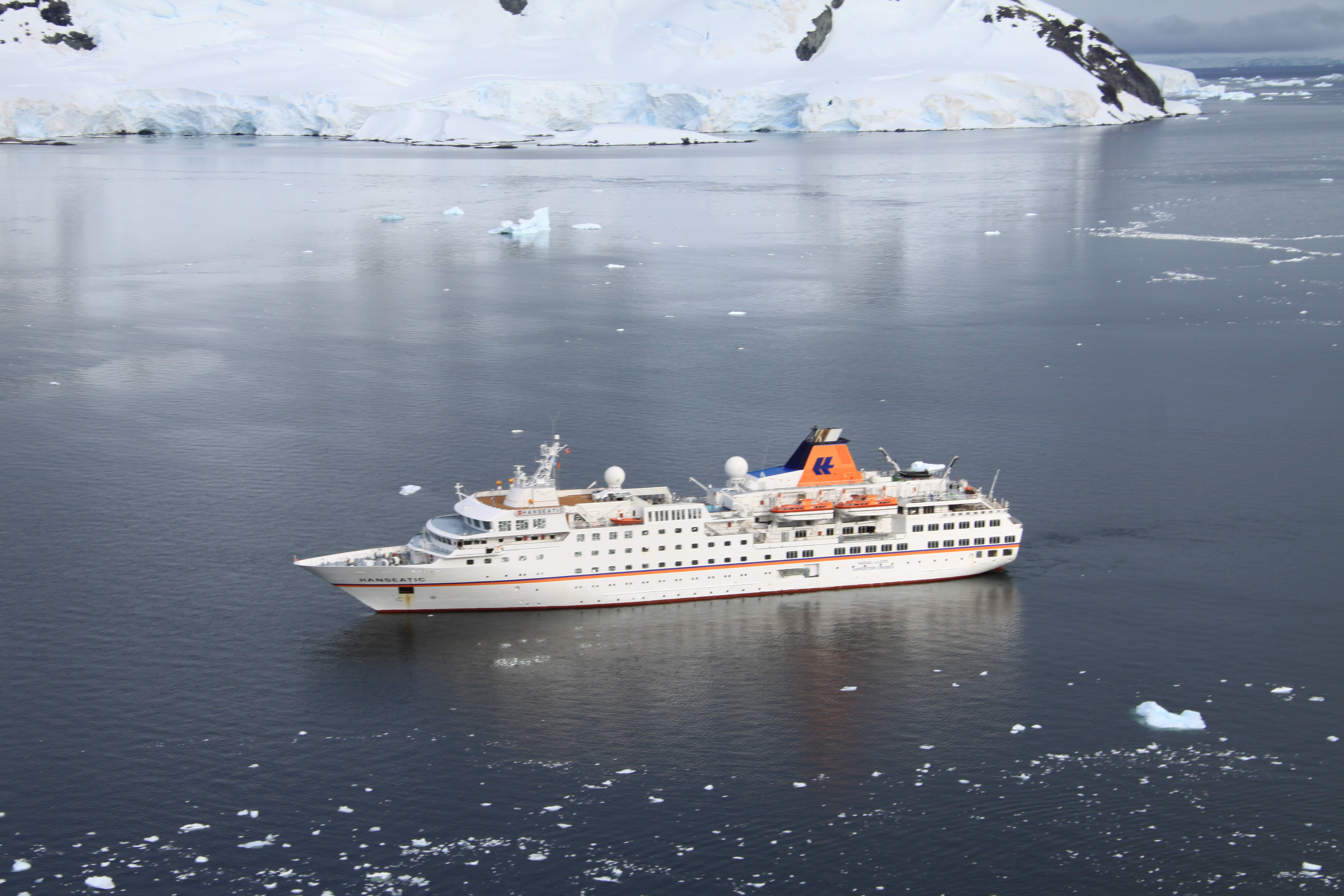 MS Hanseatic in Paradise Bay Antartica